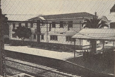 Power station next to the Paço de Arcos Railway Station, in the Cascais Railway, in Portugal. This photograph was published on the Gazeta dos Caminhos de Ferro magazine No. 1285, of the 1st July 1941, and scanned by the Hemeroteca Municipal de Lisboa.